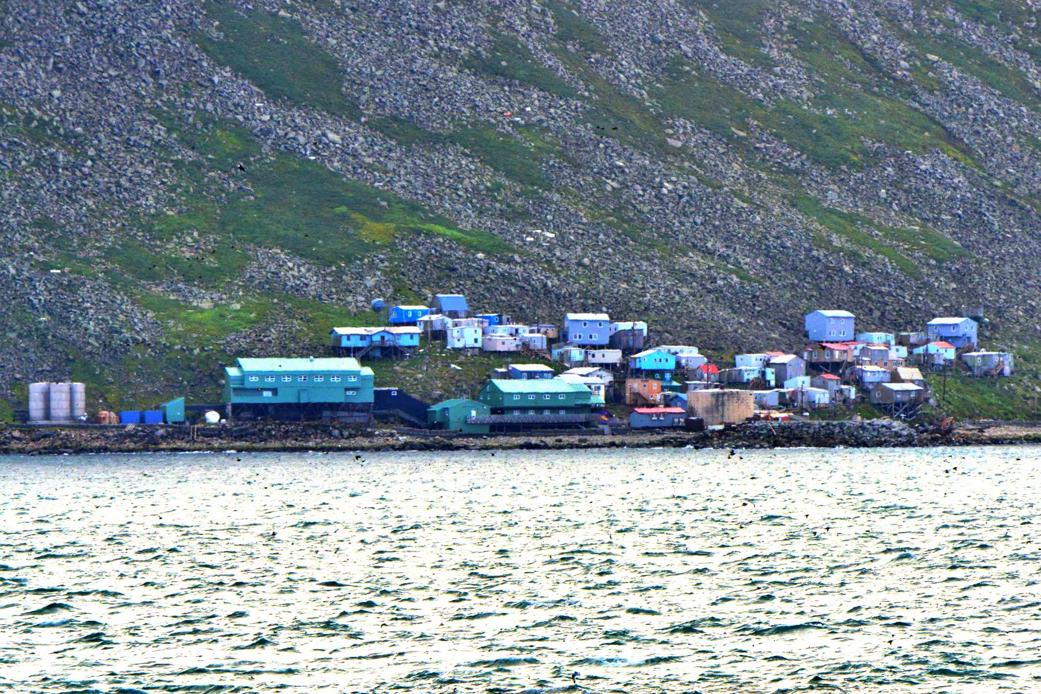 Little Diomede Island (Bering Strait, Alaska, USA; 65°45‘15‘‘N, 168°55‘25‘‘W)